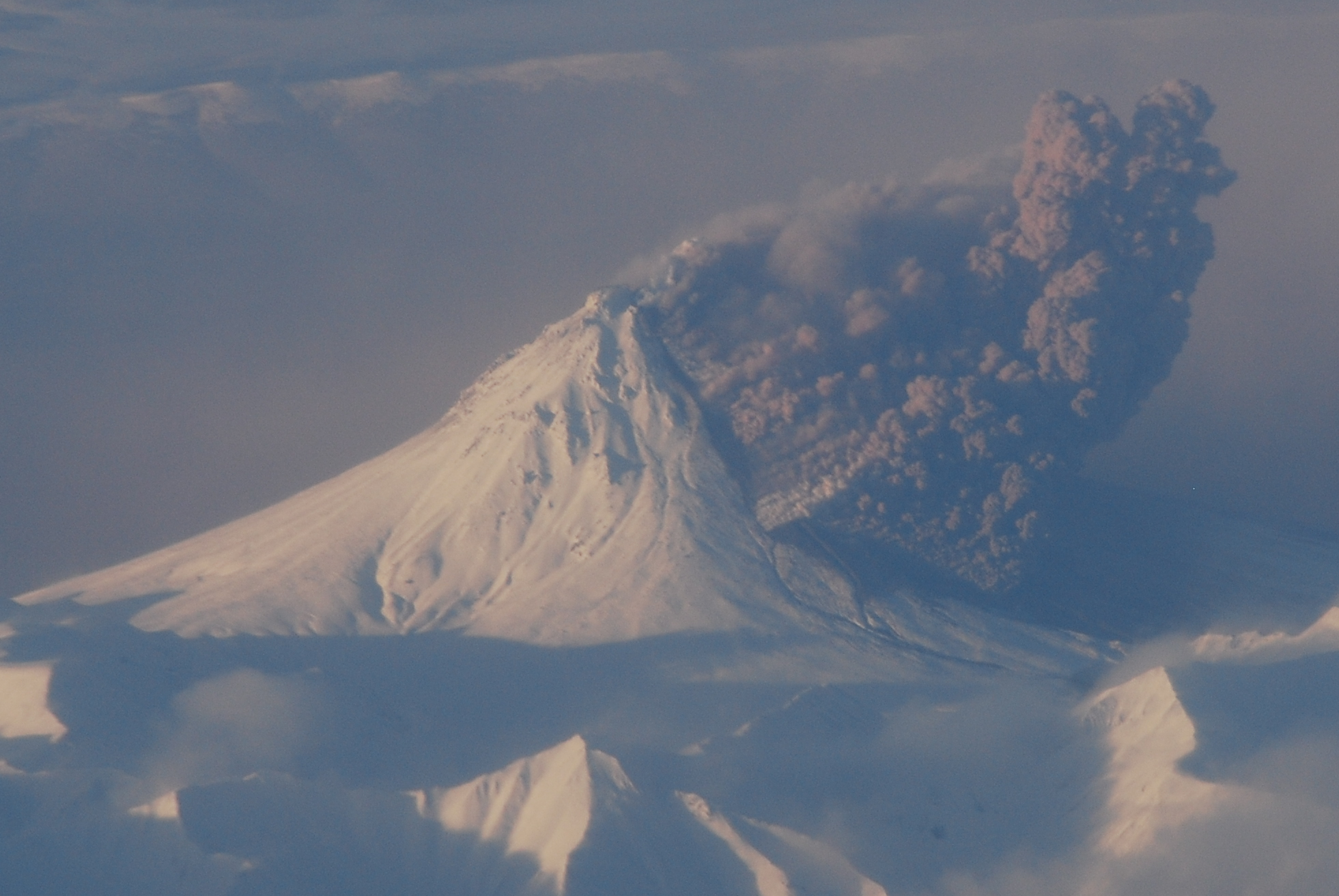 This is a cropped version of the second aerial telephoto picture of the eruption of Kizimen Volcano in Kamchatka taken by Don Nelson Page (Professor of Physics, University of Alberta, Edmonton, Alberta, Canada), 1961x1312_pixels, with a Nikon D80 digital camera and an AF-S Nikkor 18-200 mm zoom lens (probably set at 200 mm) on 2010 December 10 at 03:14 UTC (2:14 p.m. local Kamchatka time) from Seat 36K of Air Canada Flight 063 from Vancouver, Canada, to Incheon-Seoul, Korea. According to emails from Russian volcanologists Olga Girina (Institute of Volcanology and Seismology FED RAS, Head of KVERT blv. Piip, 9, Petropavlovsk-Kamchatsky, Russia 683006) and Evgeny Gordeev (Director of the Institute of Volcanology and Seismology RAS) and from the Alaskan Volcano Observatory volcanologist Christina Neal (USGS - 4200 University Drive, Anchorage, Alaska 99508, USA), this and 18 other photos by Don Page on this occasion appear to be the only ones of Kizimen Volcano at this initial stage of its December 2010 eruption. Kizimen Volcano is said to have the potential of a Mount-Saint-Helens-type eruption.